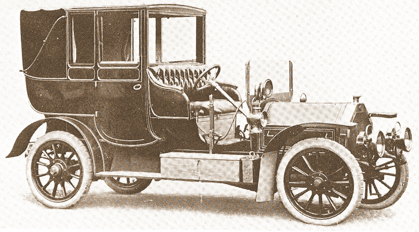 1907 Simms-Welbeck 20/25 hp